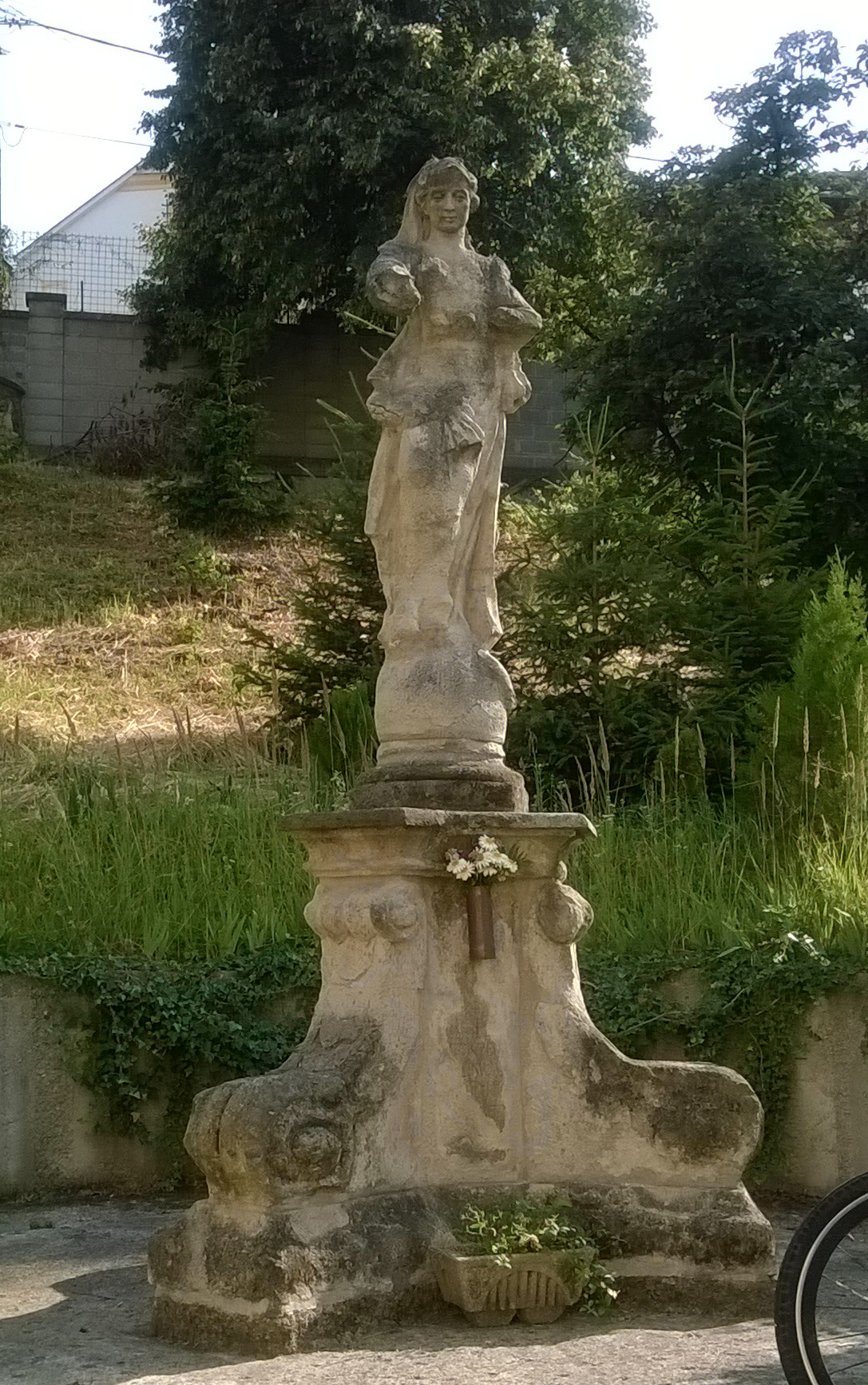 The old Maria column (Mug Mary). Inner courtyard of the Mindszent Church, Miskolc, Hungary